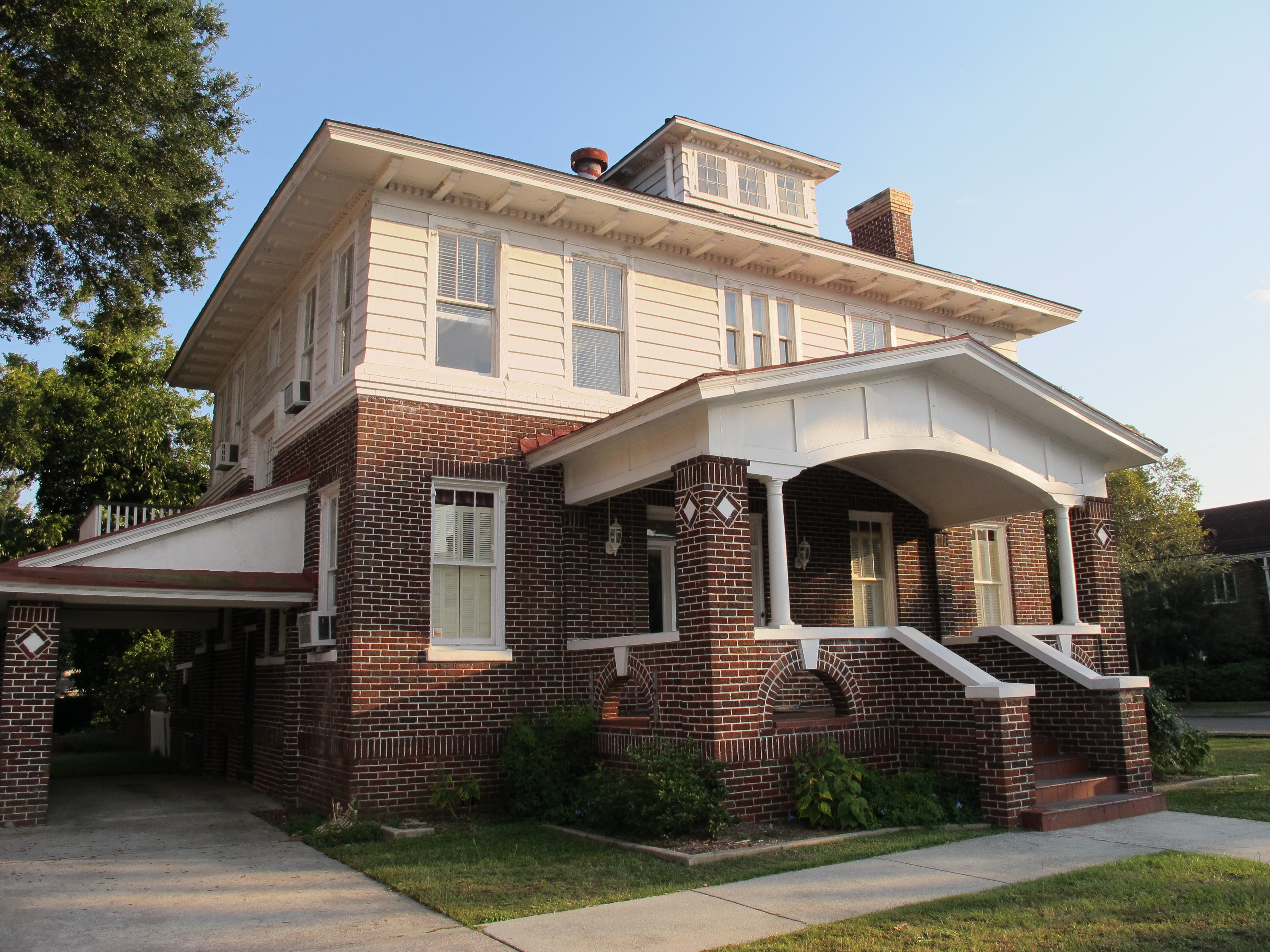 573 Huger St., Charleston, South Carolina